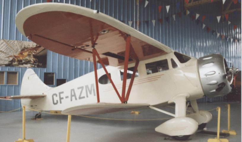 Waco EQC-6 Custom CF-AZM of 1936 at the Calgary Aviation Museum, Alberta